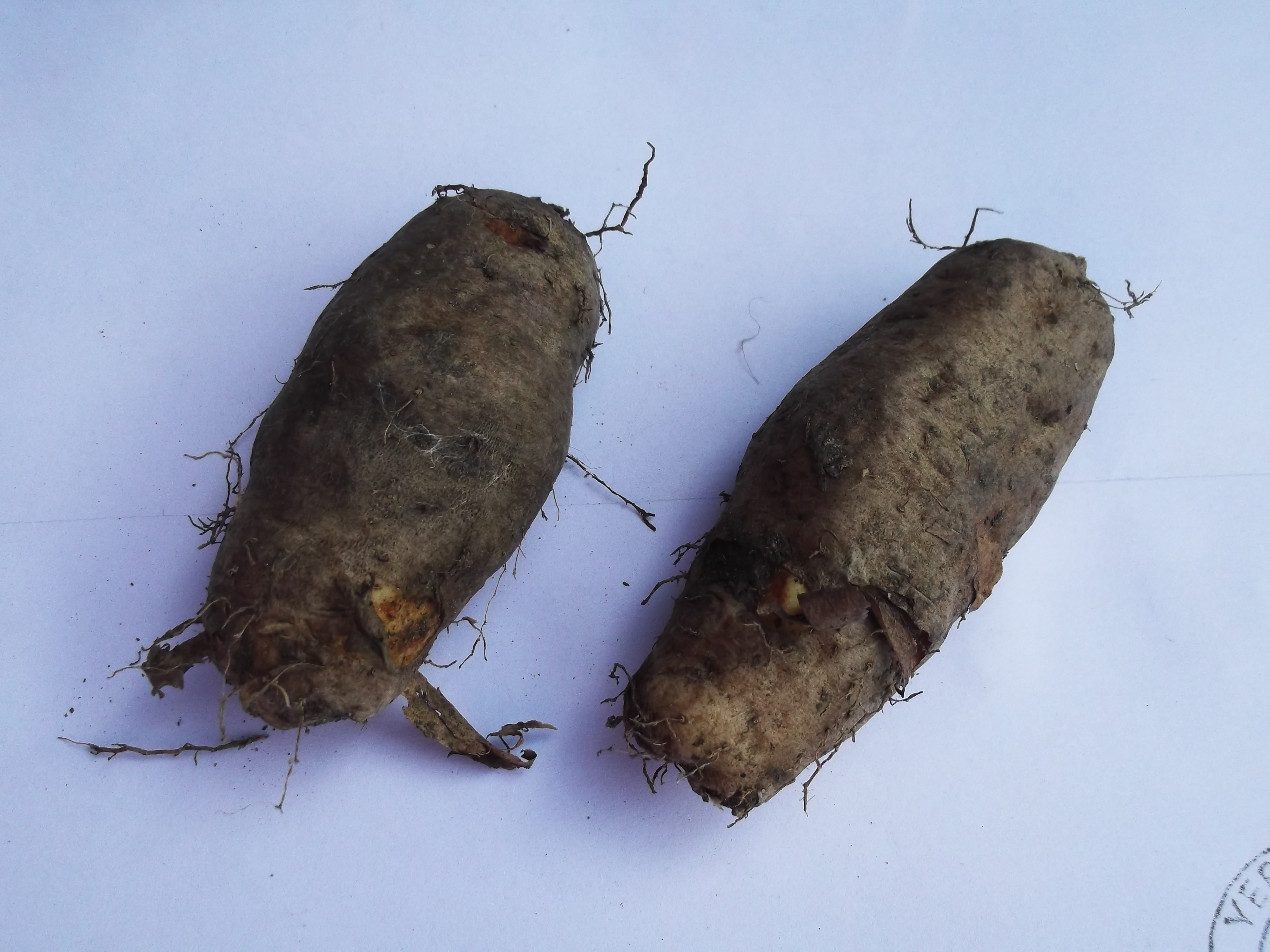 Tuberous plants,tubers edible.